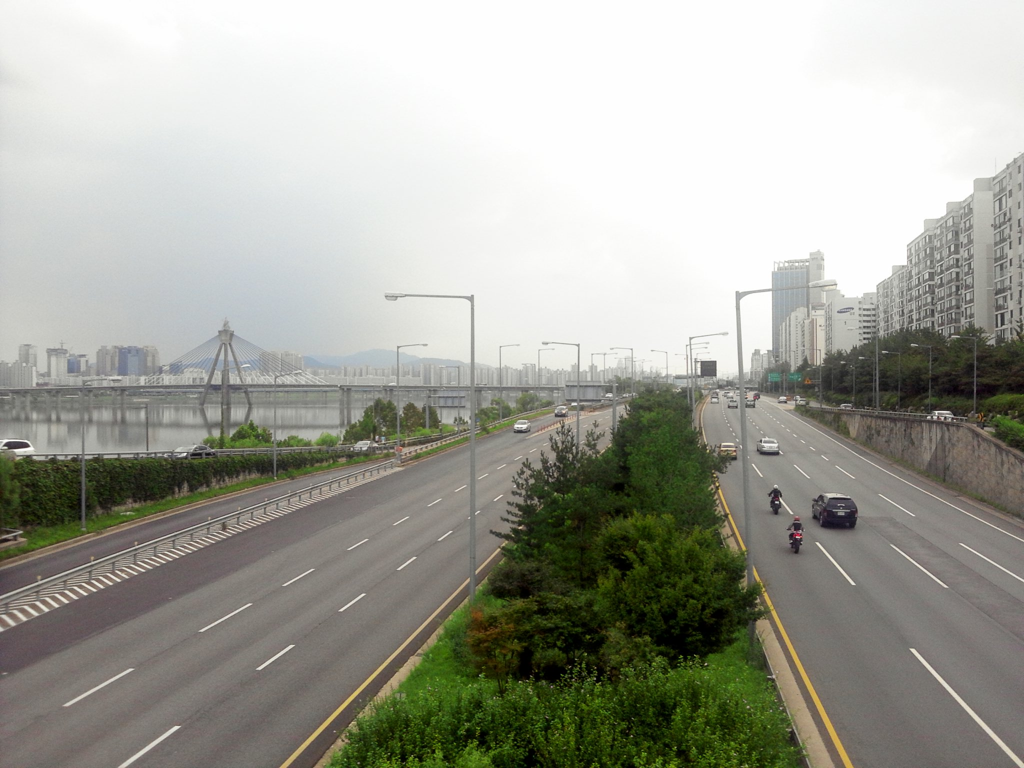 Korea Urbanexpressway - Seoul Gangbyeonbukro(Gangbyeon Expressway, North Riverside Expressway) In Cheonho BR and Olympic BR Northern IC(to Gayang Bridge)